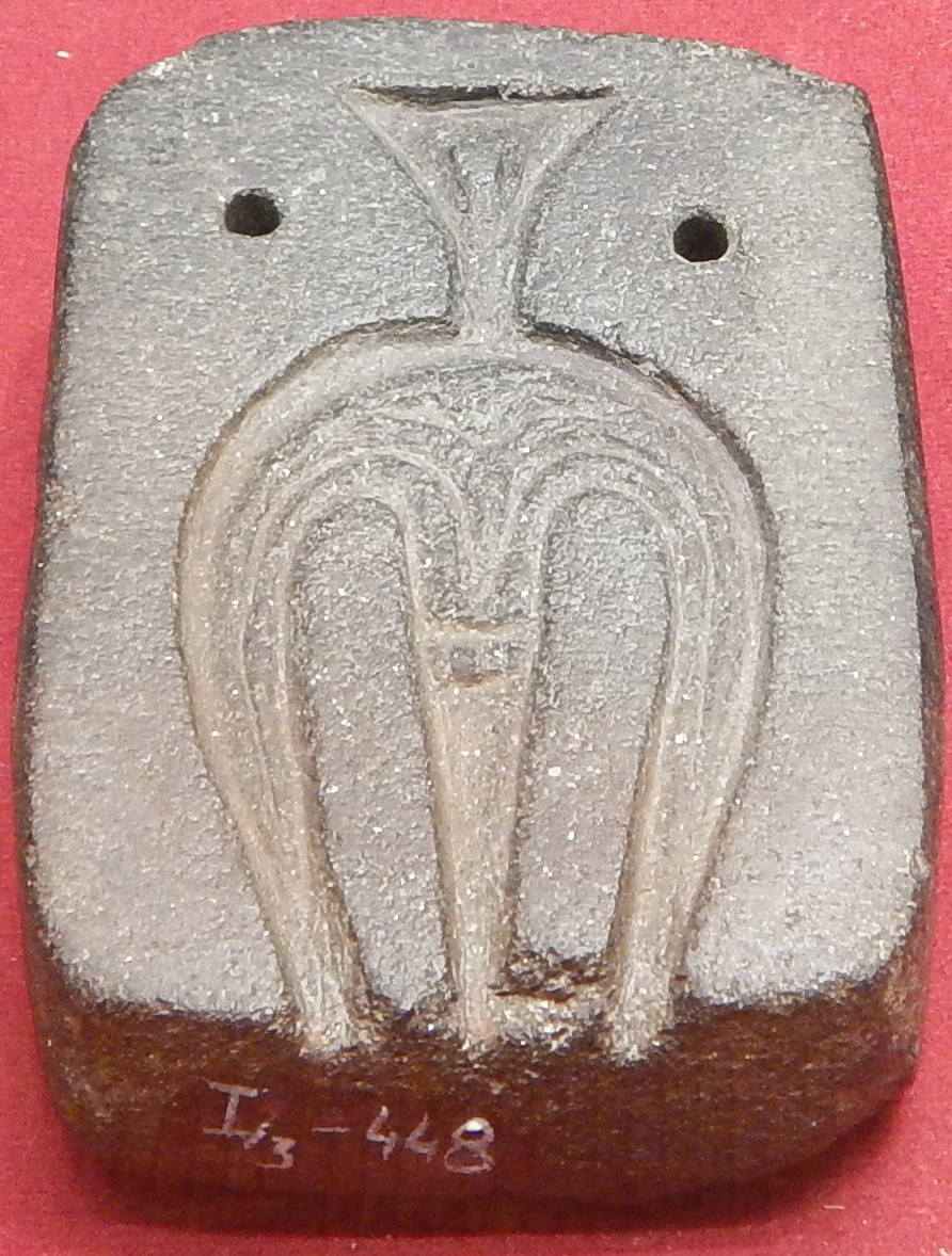 Double mould for casting bronze objects, axe and pendant, found on Taticev kamen, Kokino, Kumanovo, 13 - 12 century BC